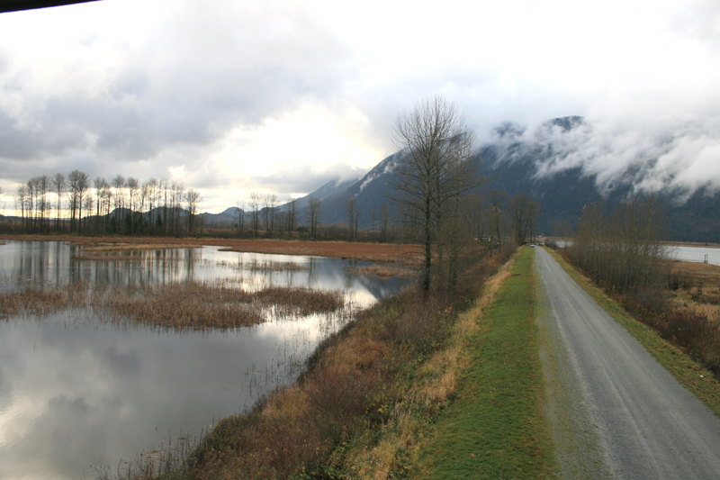 The dike at the southern shore of Pitt Lake (British Columbia, Canada) and the bog south if it, taken from the observation tower.